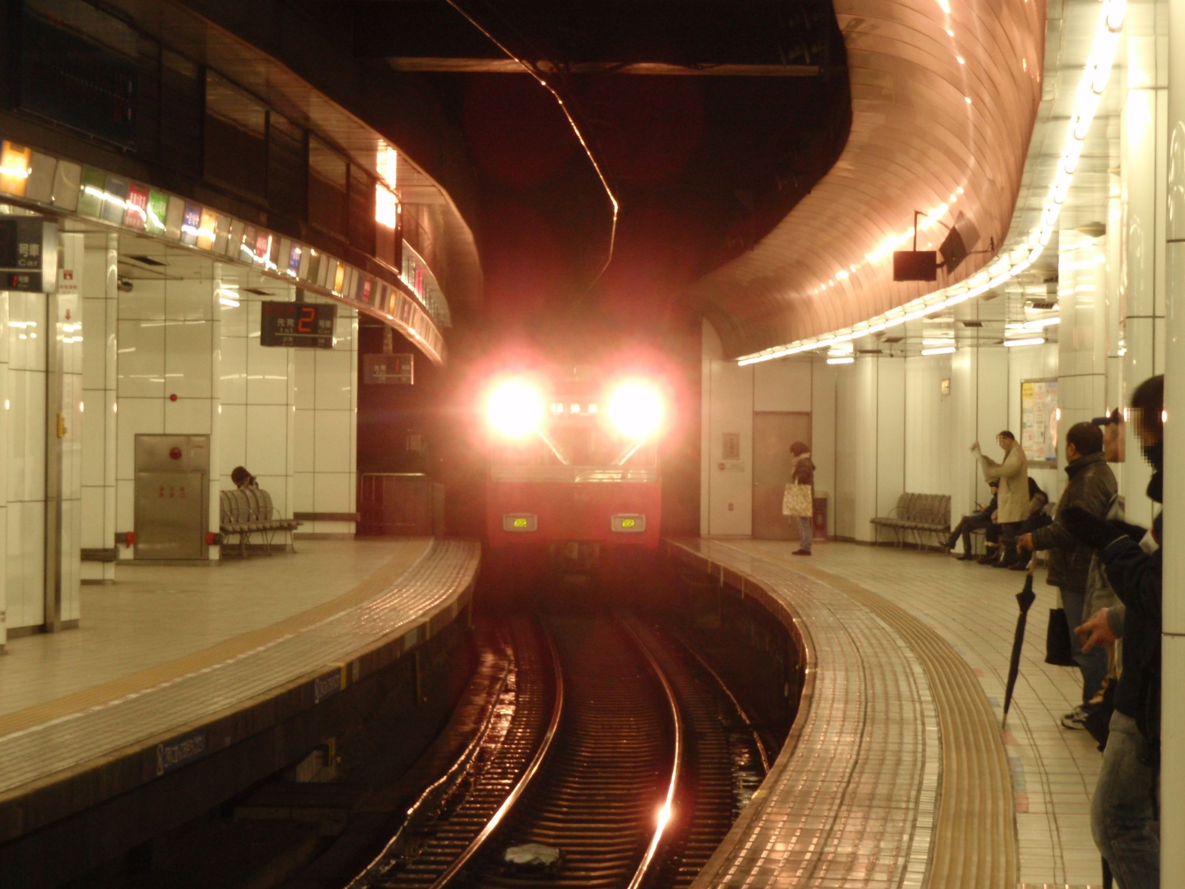 Platform at Meitetsu Nagoya Sta.